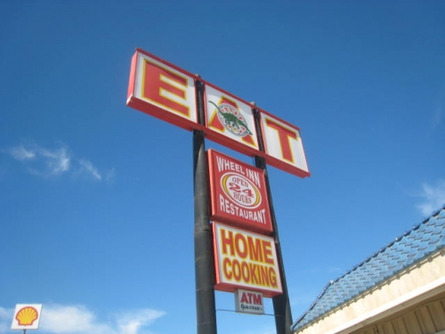 A Picture Of The Wheel Inn